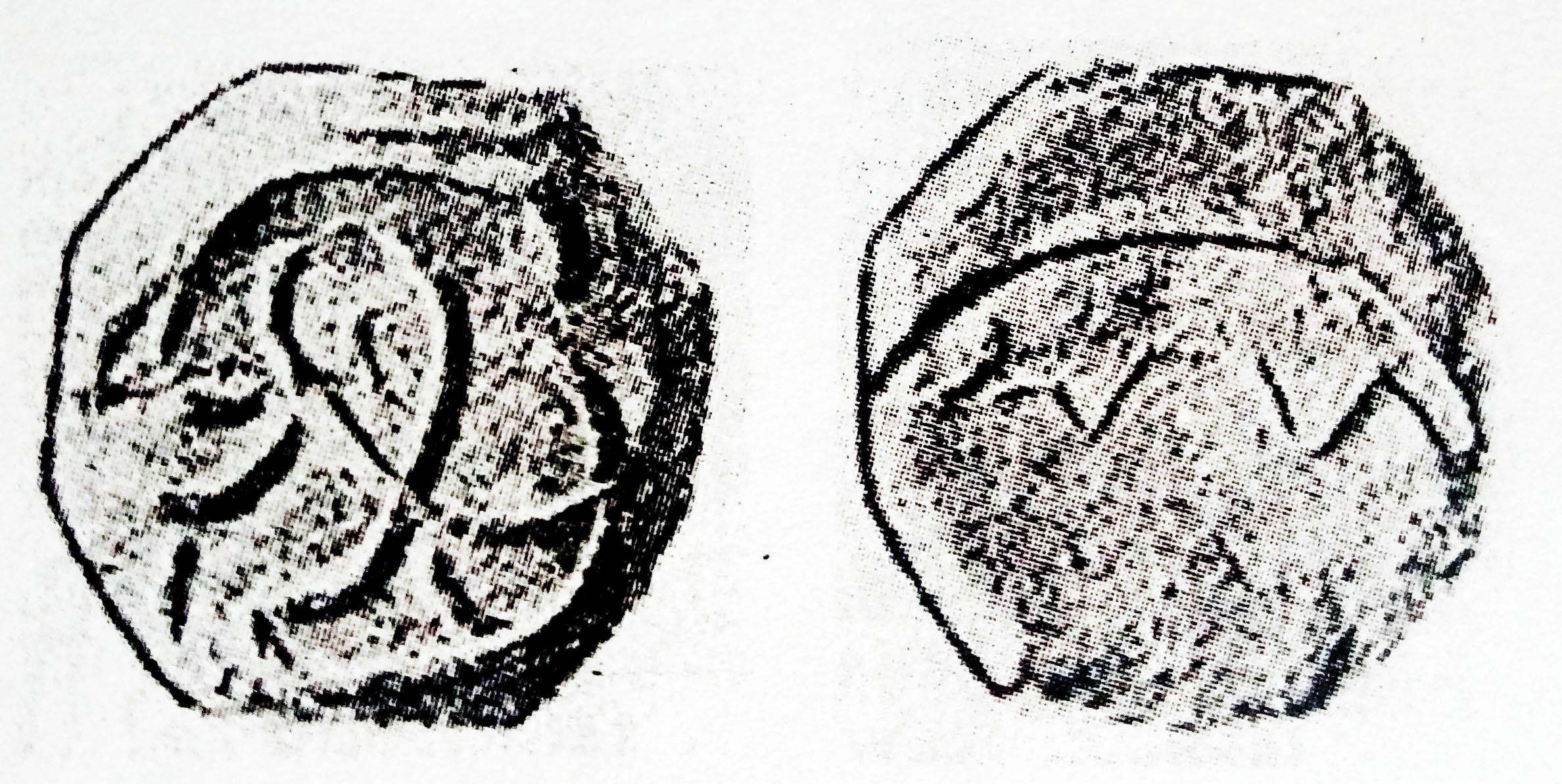 অসমীয়া: Jogeswar Singha pig rupee coin